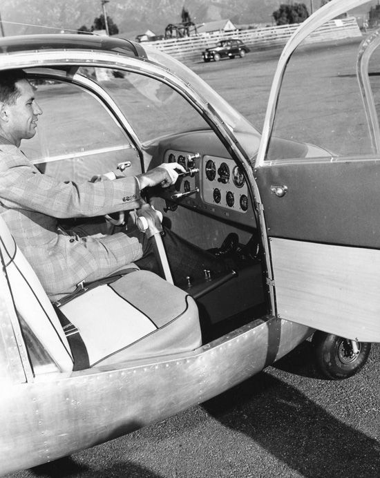 Lockheed Model 34 Big Dipper